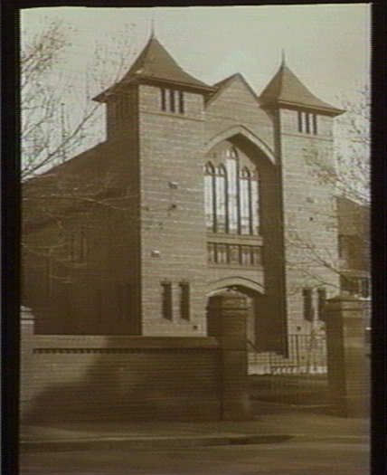 Image title:Chapel, CH. OF ENG. i.e. Church of England Girls Grammar School, Melb. [i.e. Melbourne], Punt Hill [picture] Description: Chapel of Melbourne Girls Grammar School, 1929.